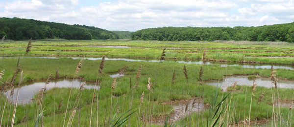 Bridge Brook and Coastal Salt Marsh, East Lyme, Connecticut. Smaller version of Image:Bride-Brook-Salt-Marsh-s.jpg, 800 pixels X 346 pixels. July 2003, © 2003, by Wikipedia user:alex756, all rights reserved; the license granted herein is to Wikimedia Foundation, Inc. for non-exclusive distribution under the GNU FDL. Please contact user:alex756 for permission to use in any other (i.e. non-GFDL or CC) context.